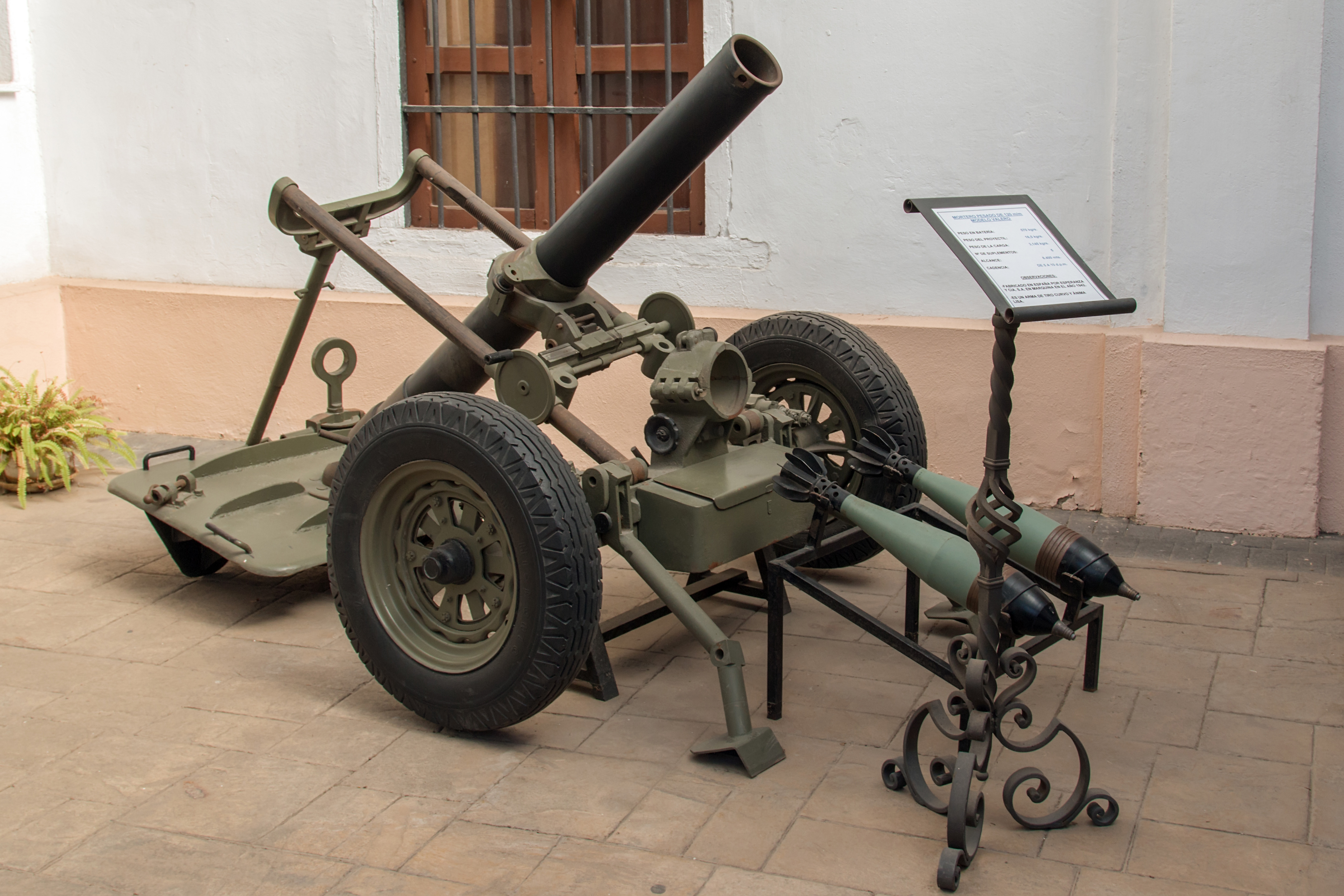 A post-WW2 120-mm Ecia-Valero heavy mortar